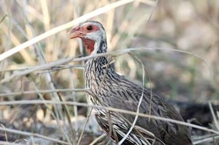 Red-necked spurfowl at Gorongosa, Mozambique